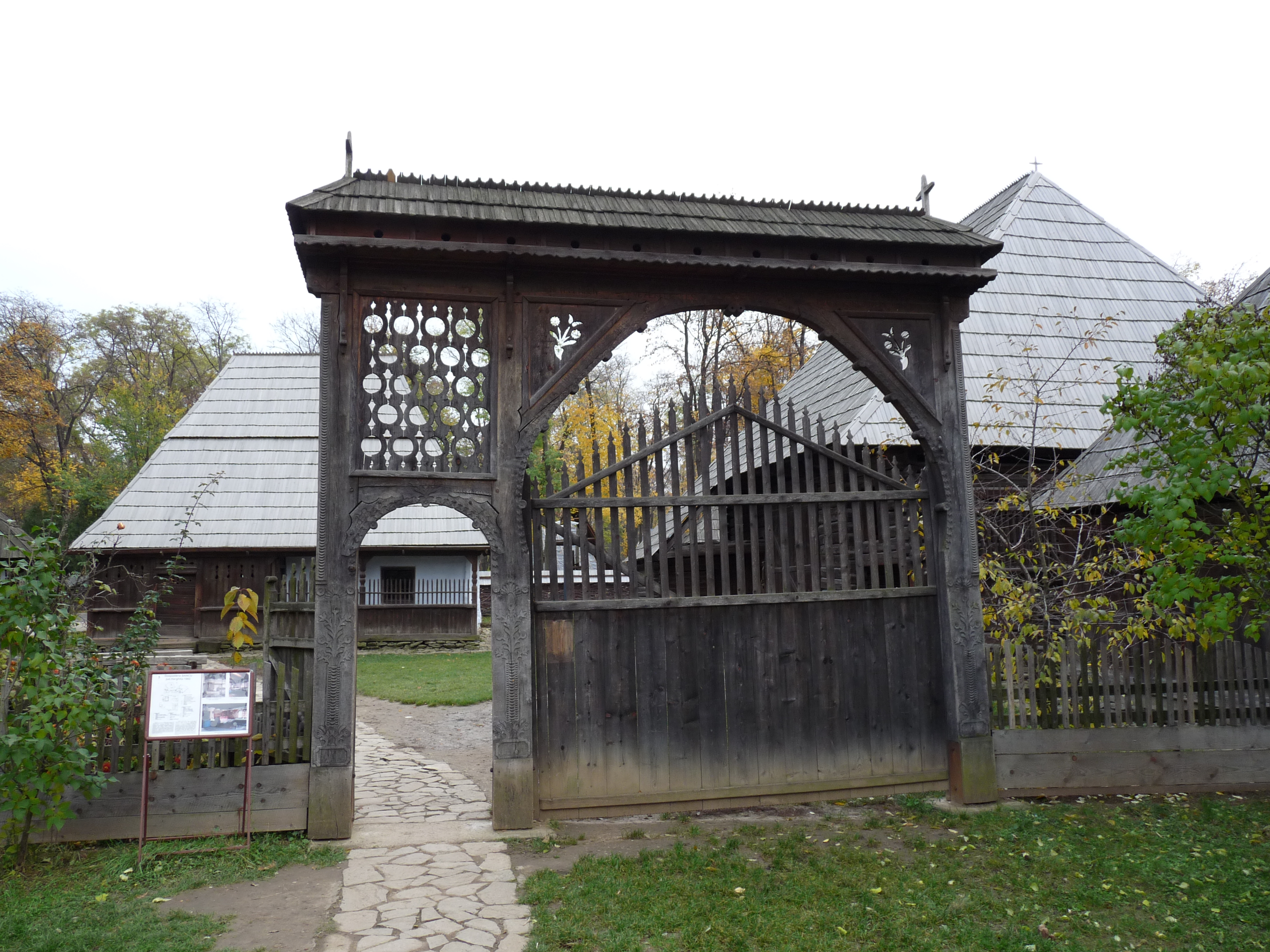 1862 household from Bancu, Harghita County, Romania, exhibited in the Village Museum in Bucharest. Traditional seckler gate with pigeonry on top.